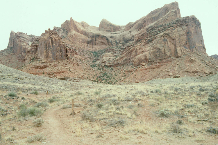 Syncline in Navajo Sandstone visible from the Syncline Campsite on the northwest side of Upheaval Dome, Canyonlands National Park, Utah, facing south. May 2002.